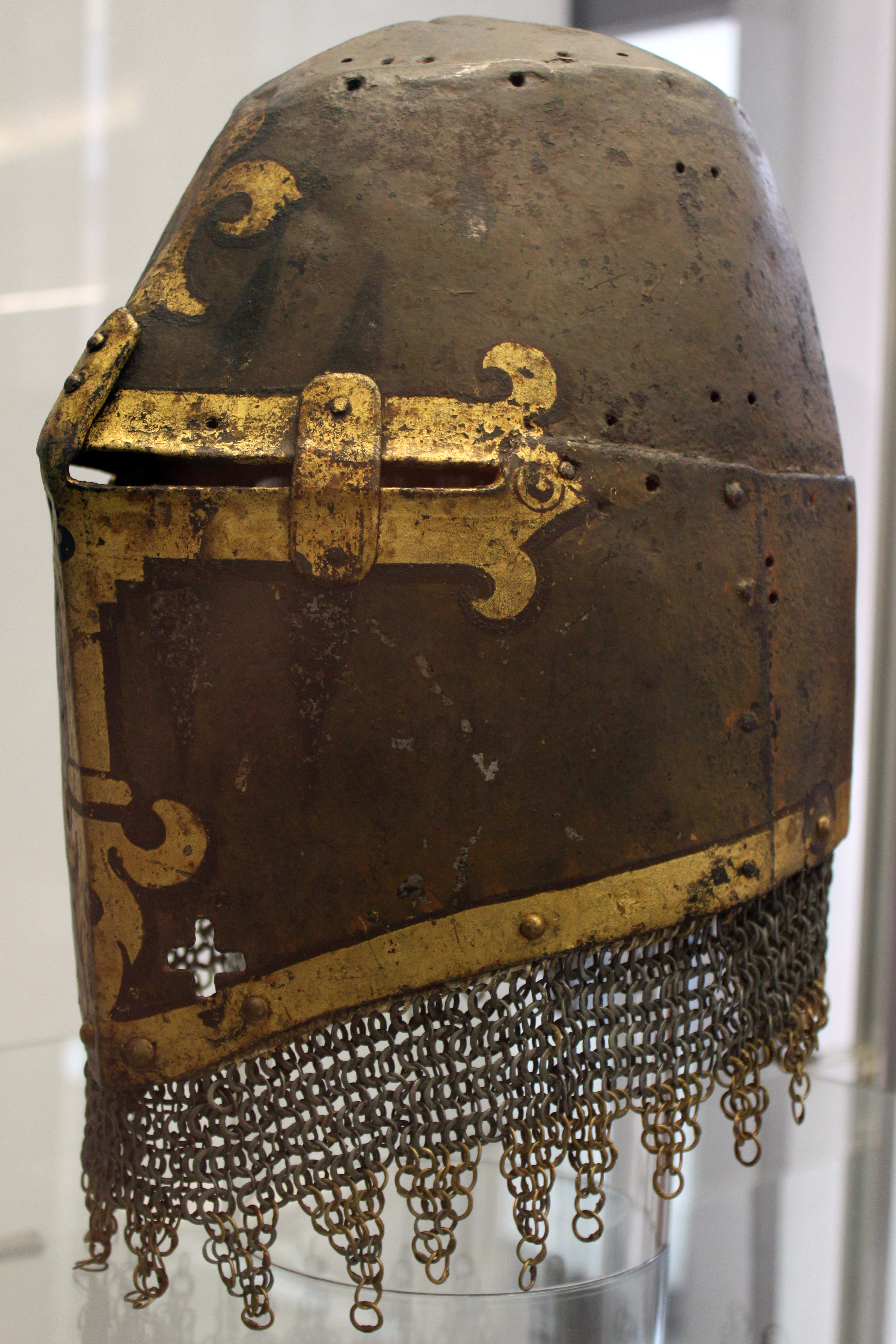 Helmet of Hans Rieter of Kornburg, Nuremberg, mid-14th Century; Germanic National Museum in Nuremberg